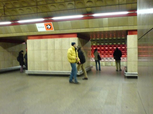 Staroměstská metro station in Prague, Czech Republic.